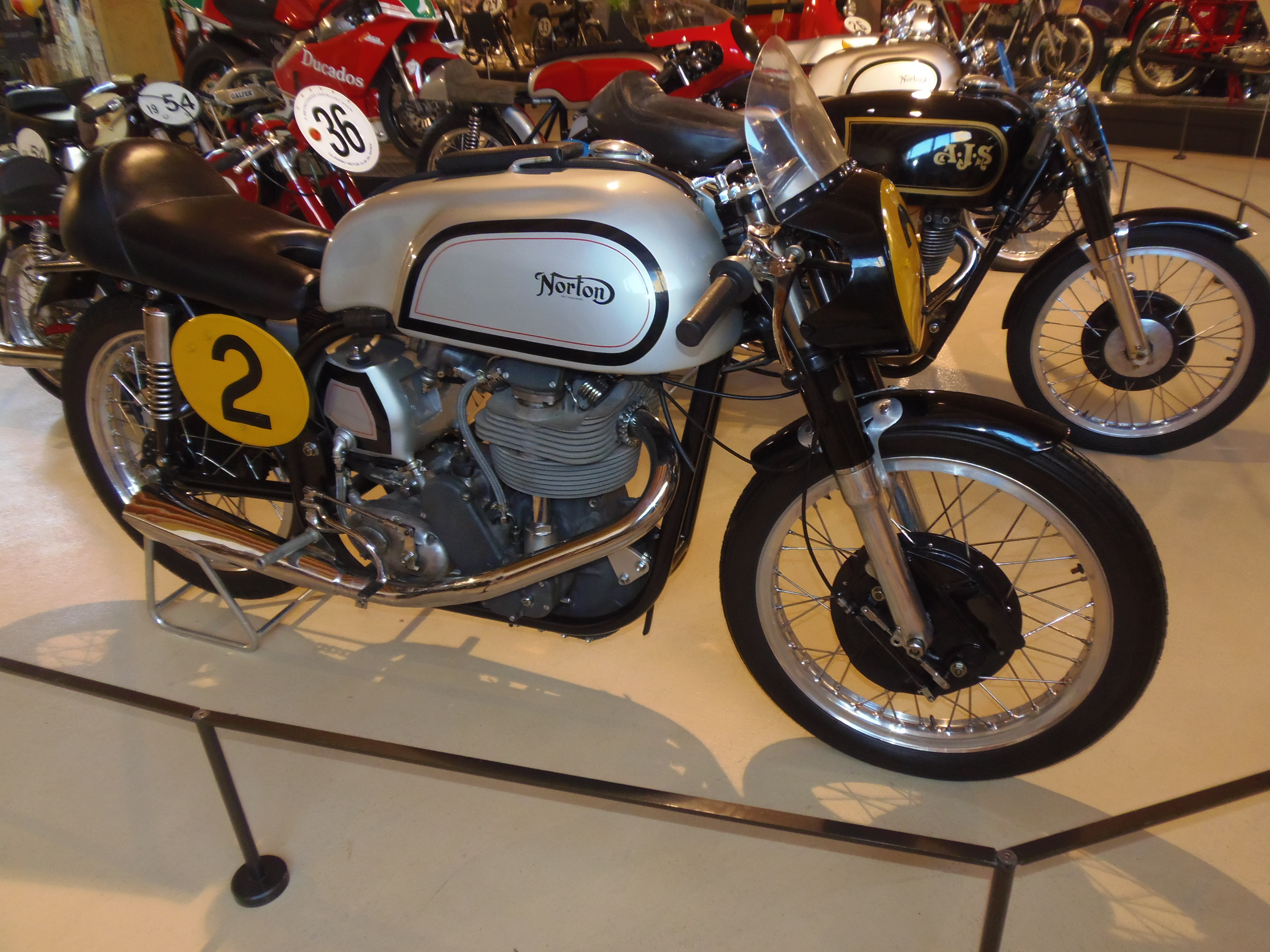 Norton Manx 500 (1953). This unit belonged to John Grace.